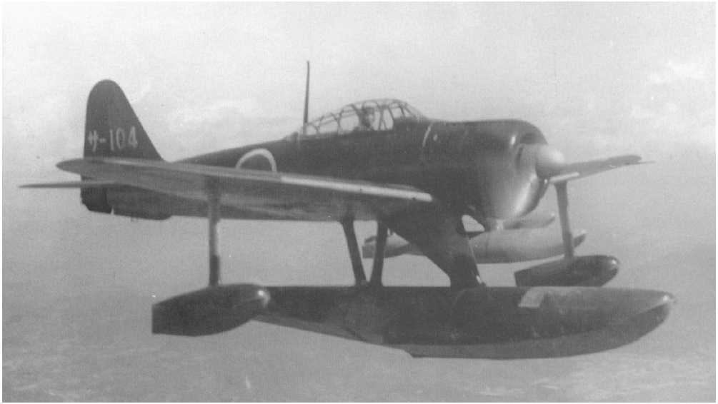 Nakajima A6M2-N "Rufe" from Sasebo Air Group in flight.